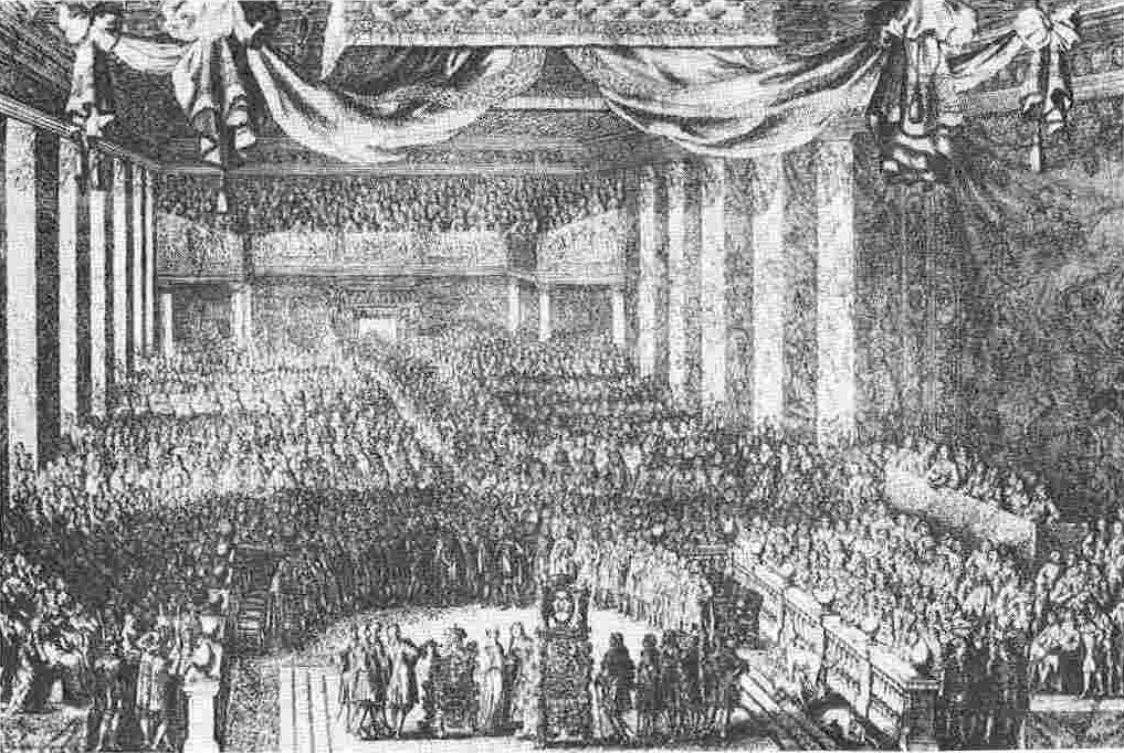 A picture of the ceremony of Charles XI:s accession to the throne in 1672 after the regency during his minority. The ceremony took place in the Hall of State (Swedish: ‘Rikssalen’) in the old castle Tre Kronor in Stockholm. Visible on this picture is the throne of Queen Christina, and this throne is still kept in the State Hall of the Royal Palace in Stockholm. The queen dowager Hedvig Eleonora used the smaller throne beside the throne of Queen Christina and is also visible here.